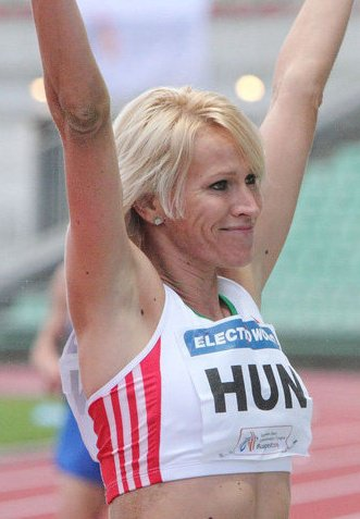 Zita Ajkler at Team European Champs in 2010.